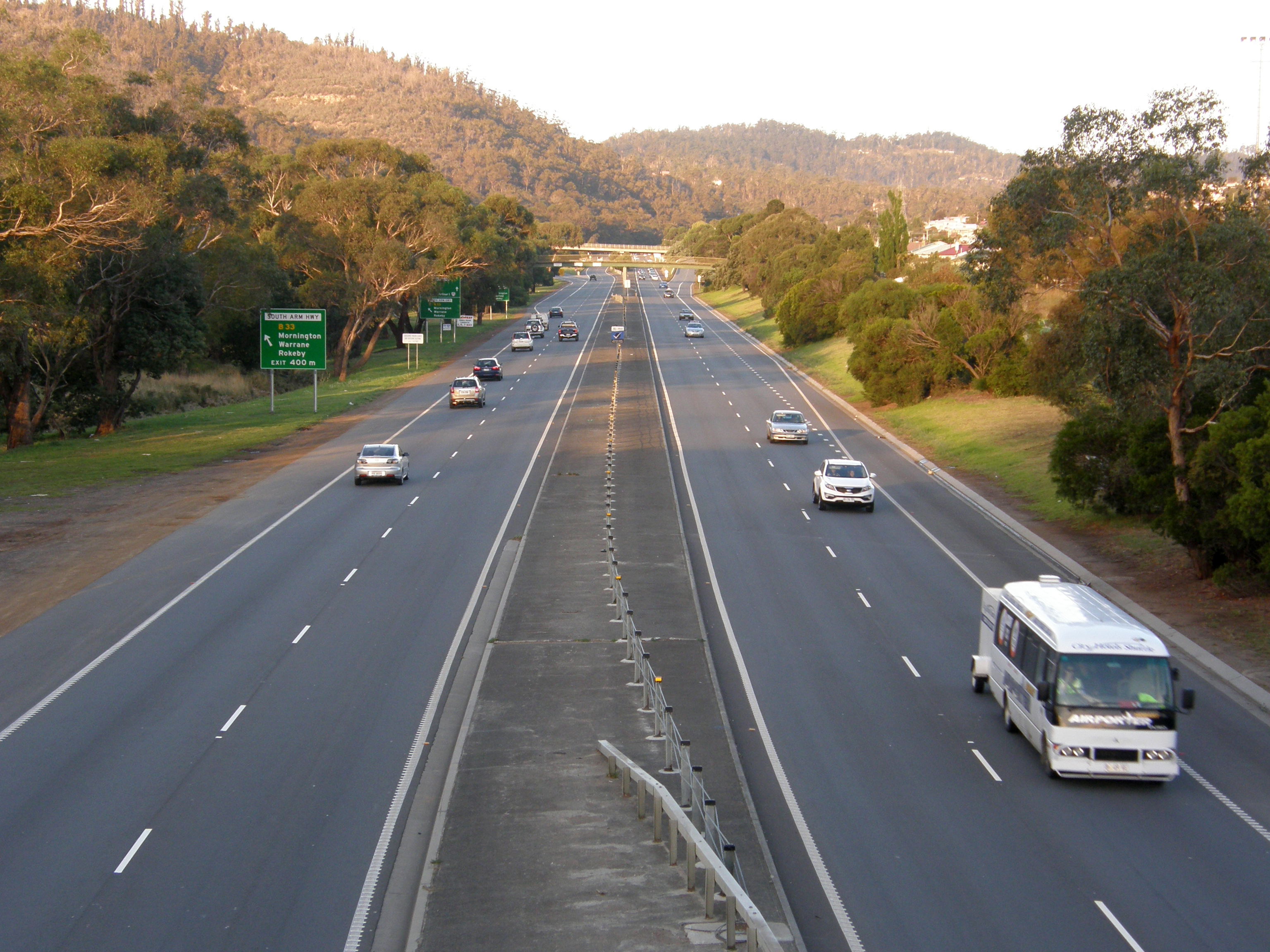 An image of the Tasman Highway, facing the east bound direction, taken from an overpass in Warrane